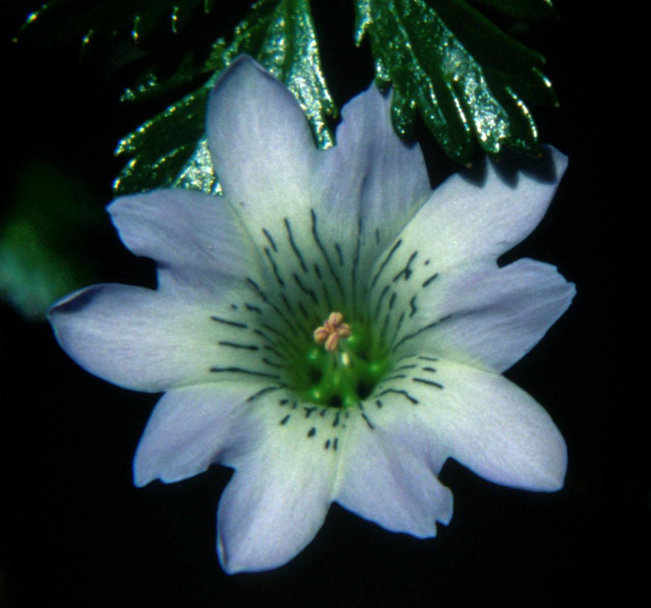 Gentiana thunbergii var. minor in Mount Asahi, Hida Mountains, Japan.